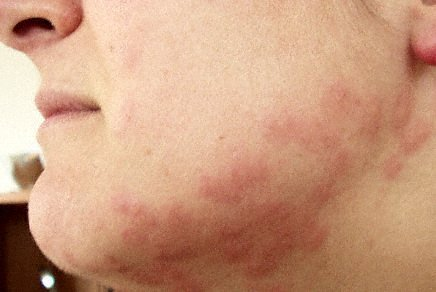 Picture taken with permission of woman affected by bed bugs in infested dwelling, by Andy Brookes BSc (Biol), FRES